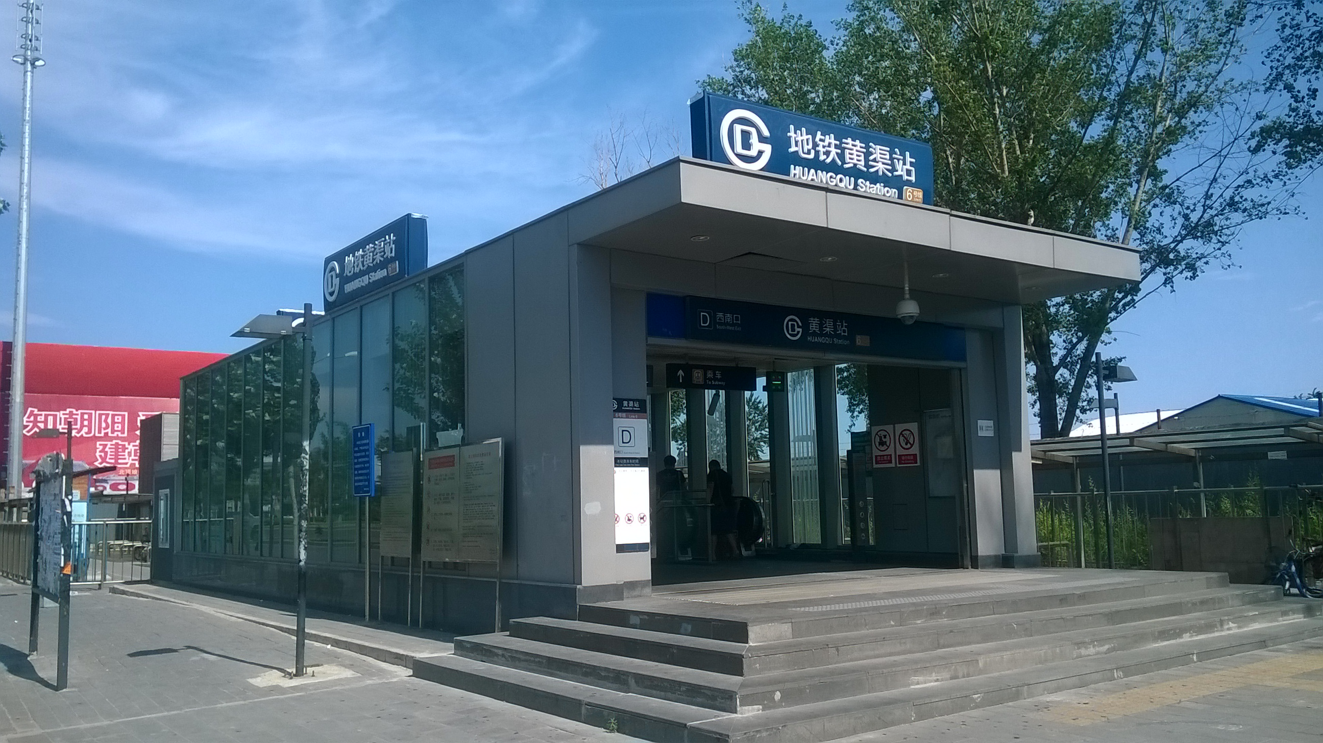 Exit D (south-west exit) of Huangqu Station, Line 6, Beijing Subway